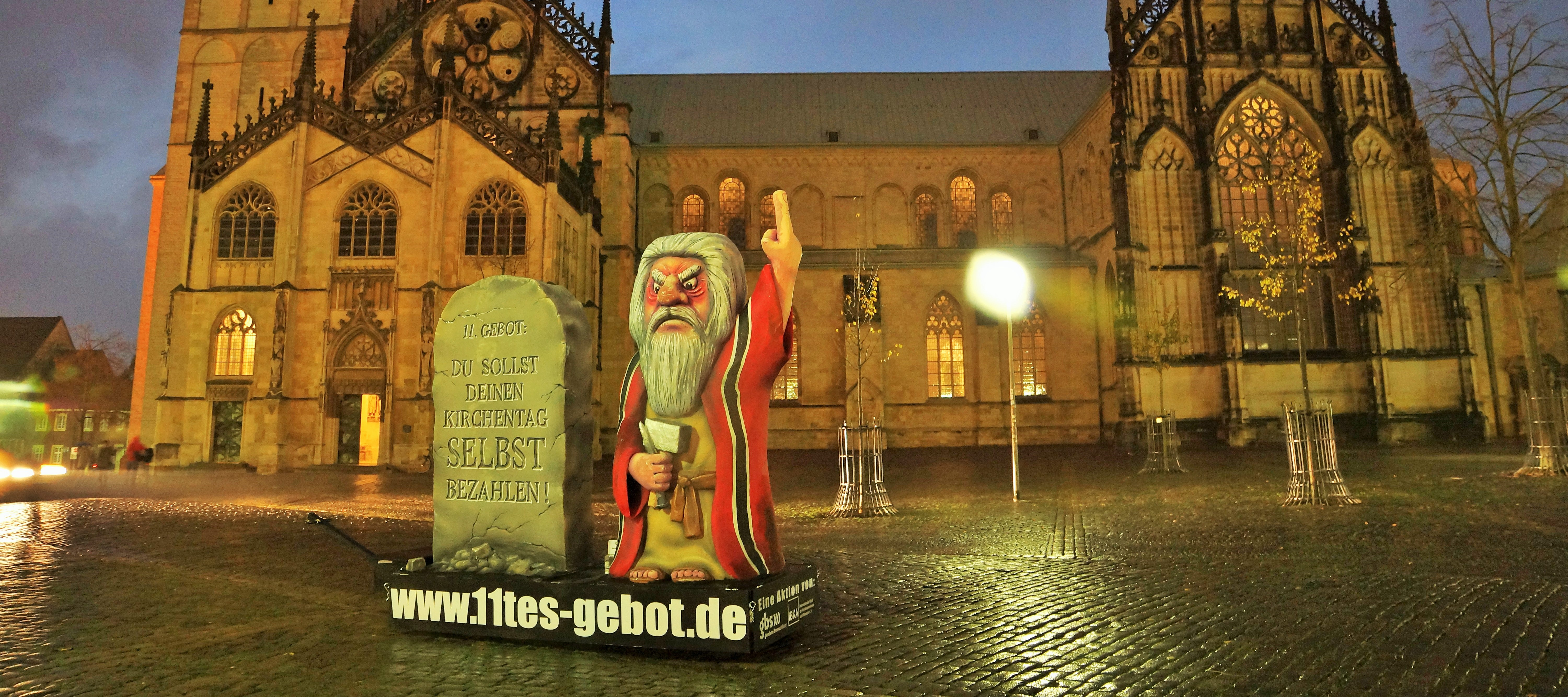 Criticism of churchday finance with "Moses 11. Commandment" sculpture. On the sculpture stands: "Thou shalt pay thy church-day self". On the 101st catholic churchday 2018 in Muenster, Germany